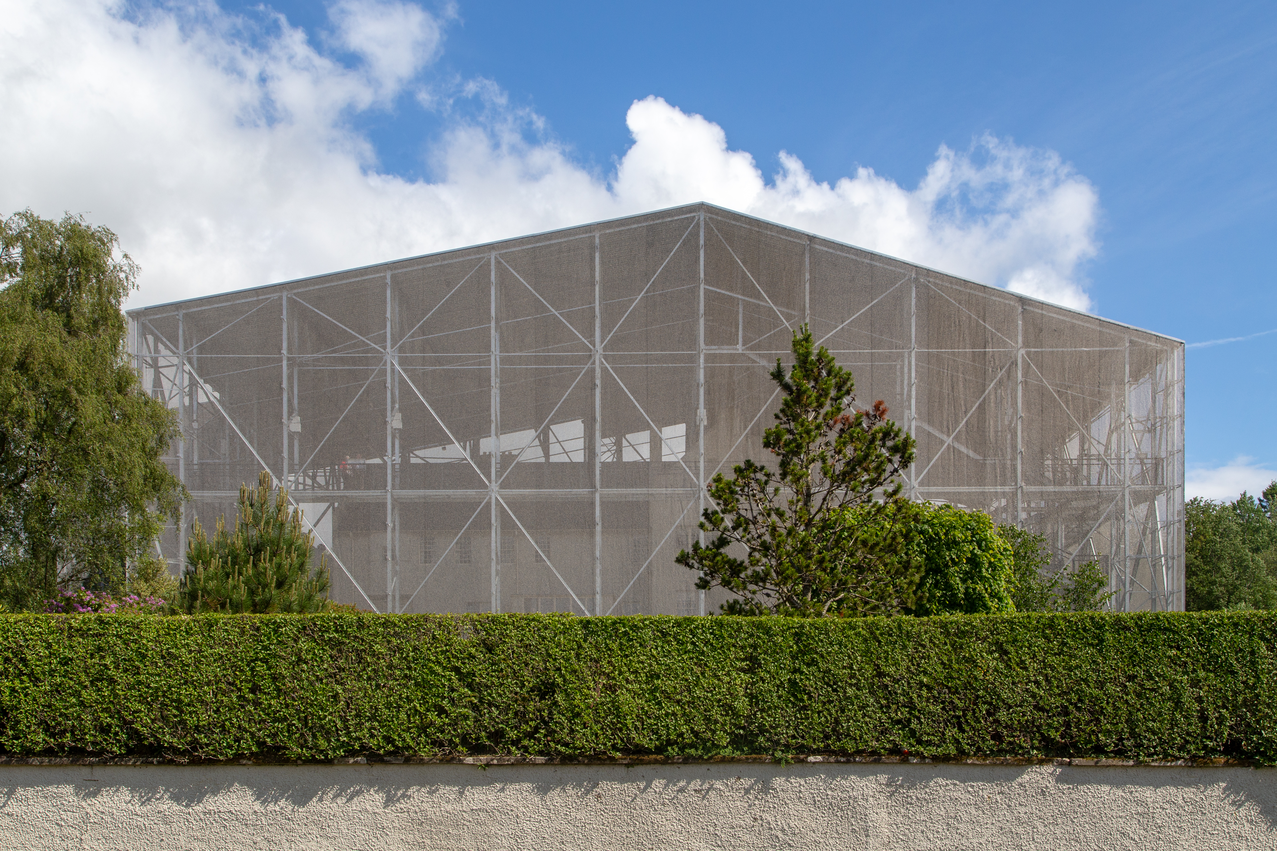 The Hill House, Helensburgh